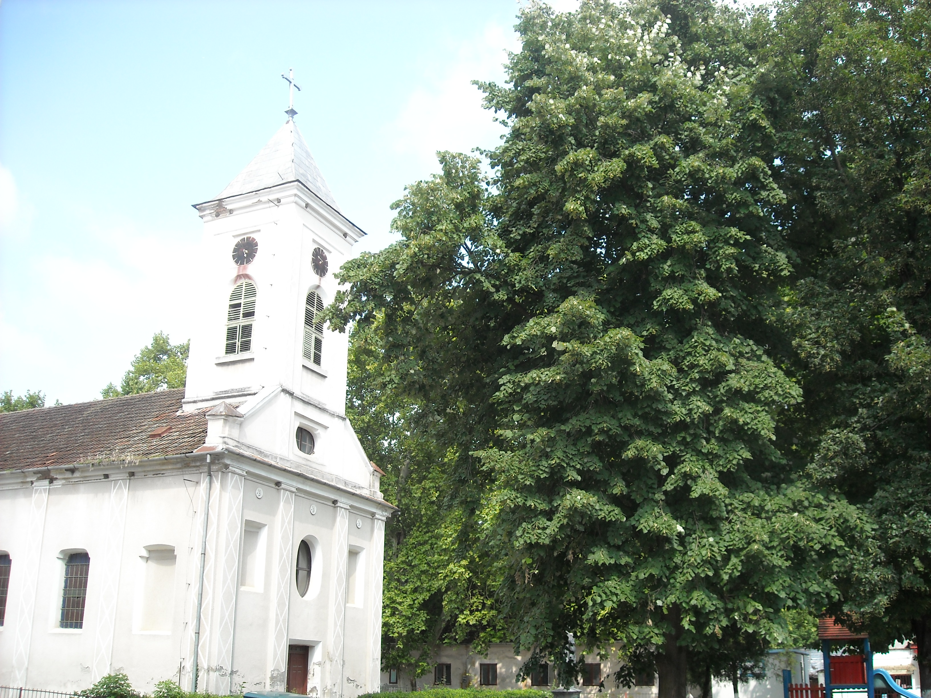 main place with Roman Catholic church in Săvârşin/Soborsin, Romania